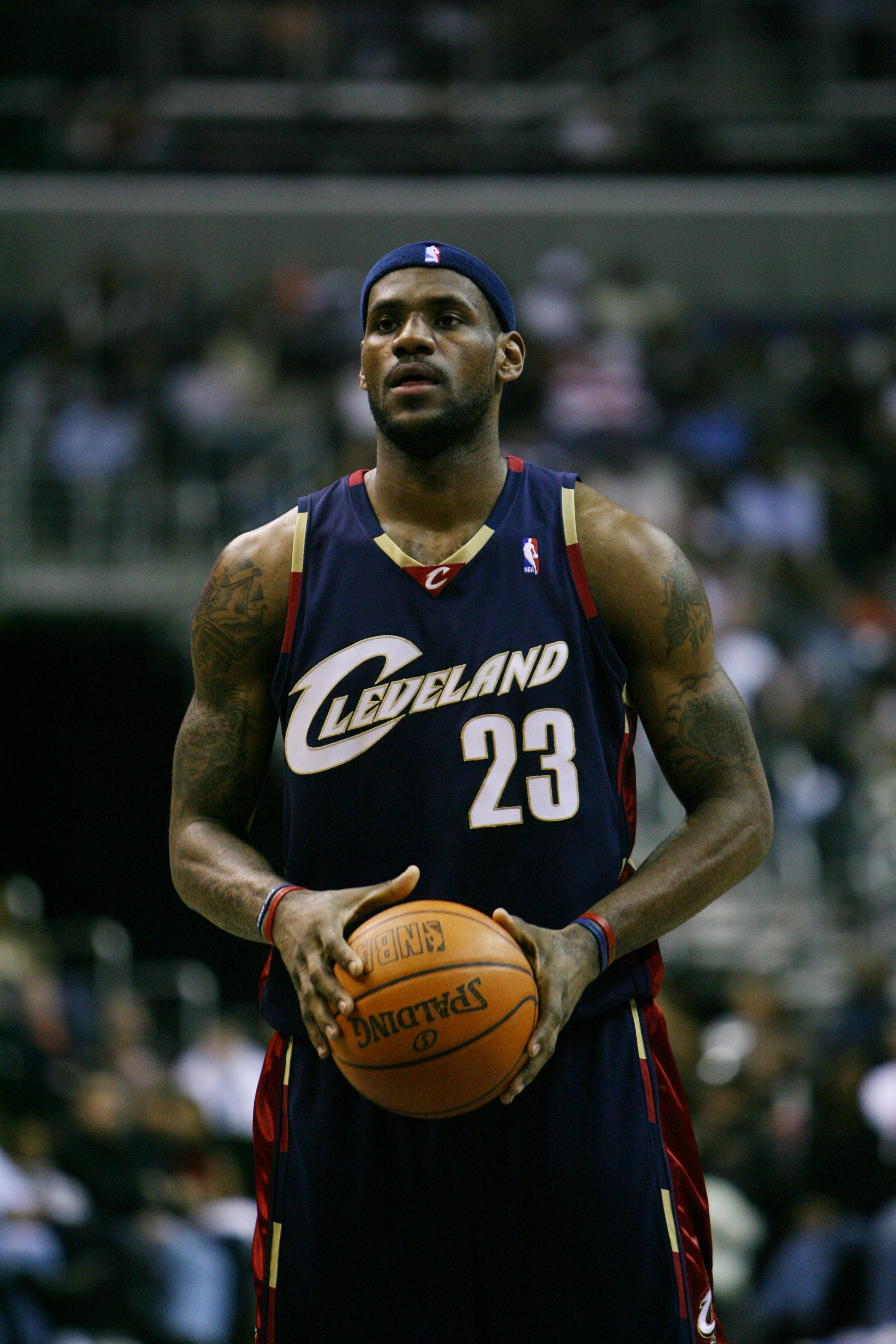 LeBron James playing with the Cleveland Cavaliers